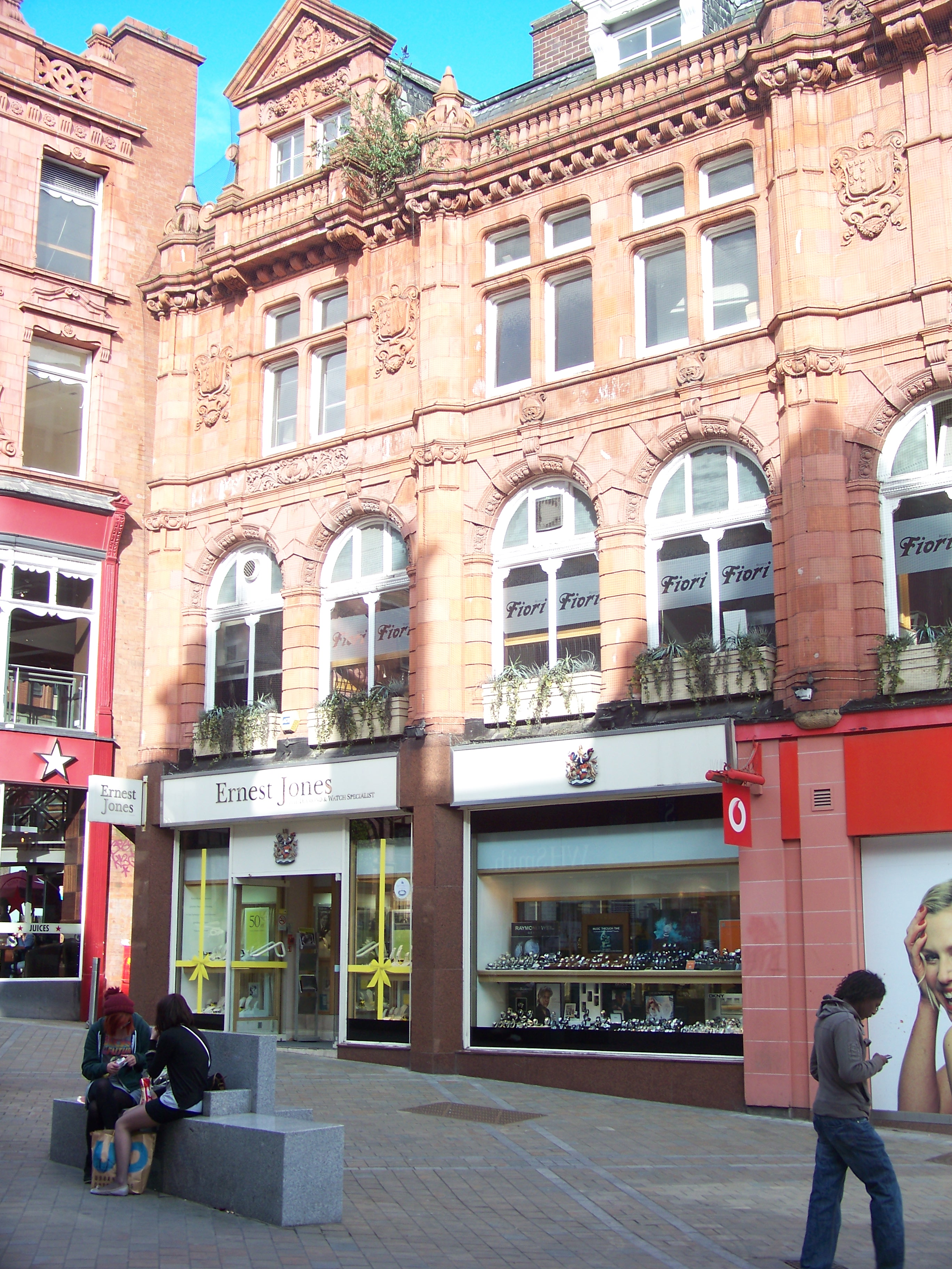 Ernest Jones, Lands Lane, Leeds. Taken on the afternoon of Monday the 11th of April 2011.